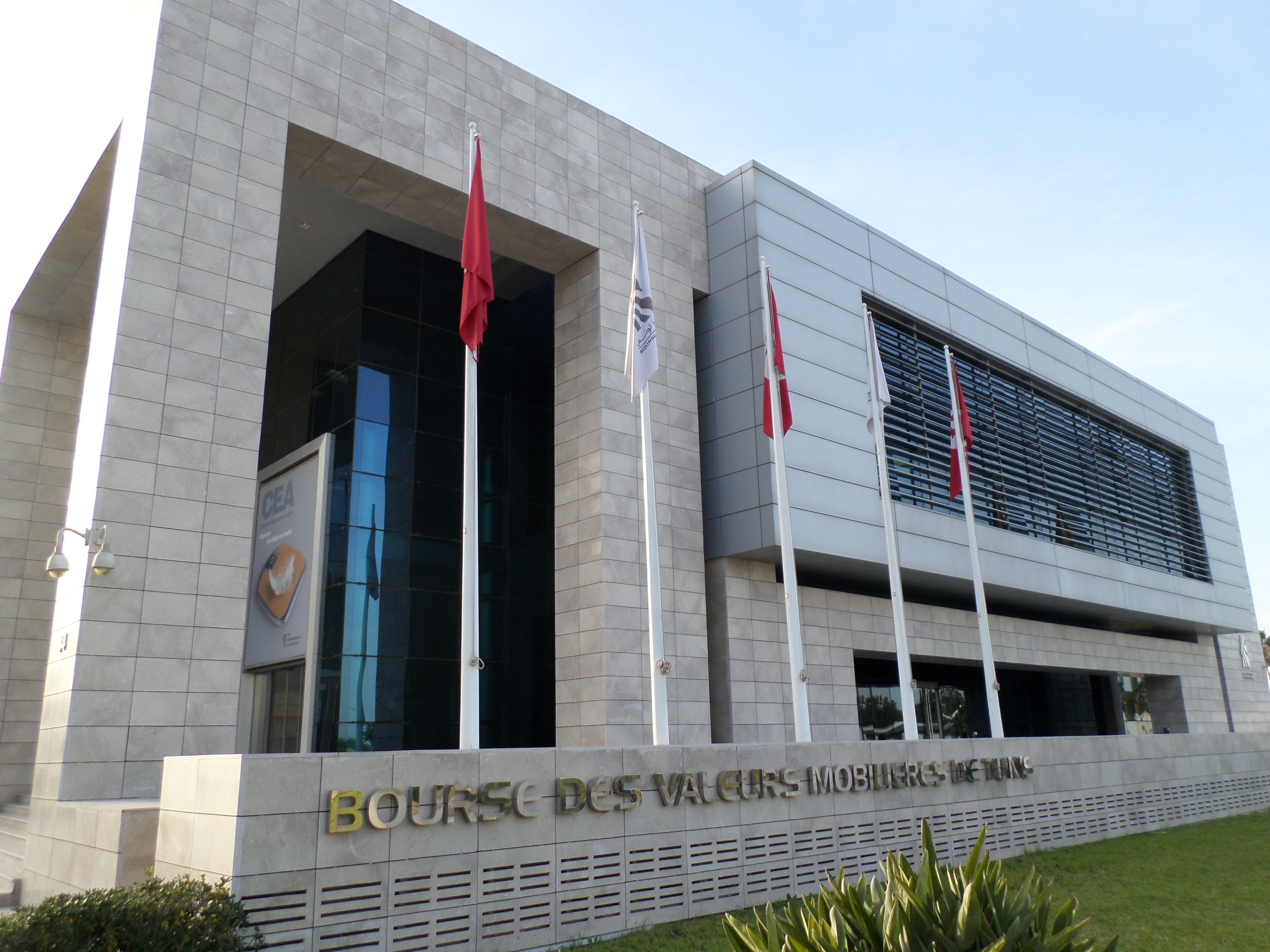 Tunisian stock exchange headquarters in Berges du lac II